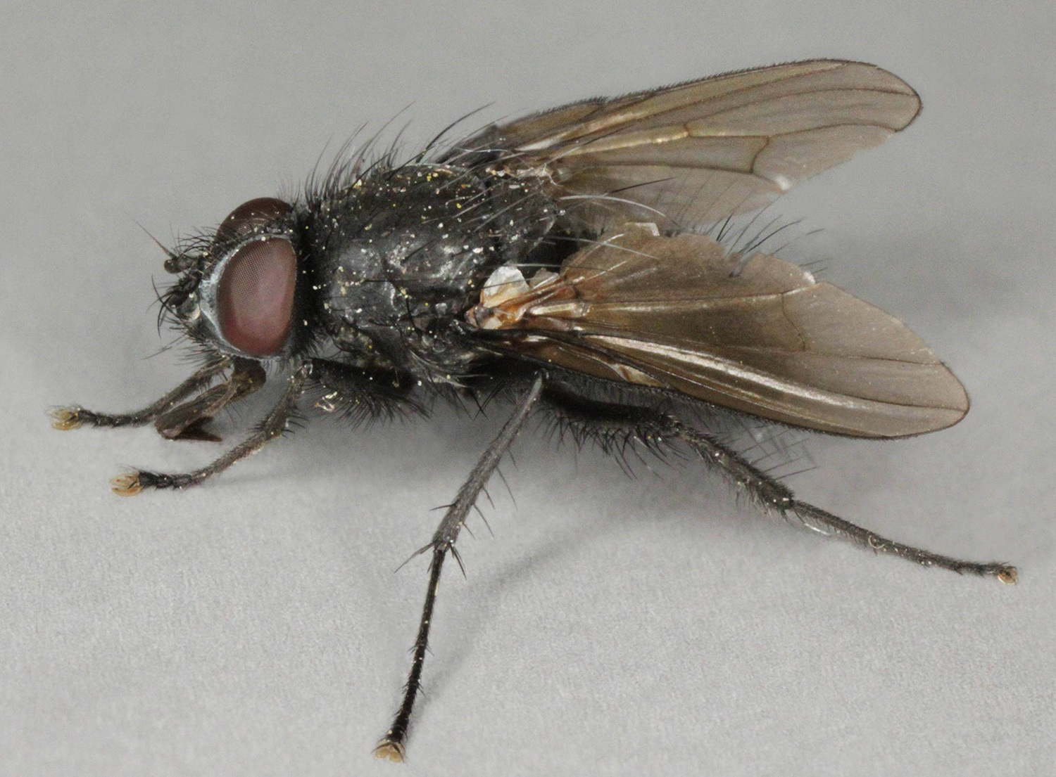 Drymeia hamata male, Nant Gwrtheyrn, North Wales, August 2011